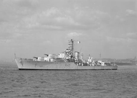 British destroyer HMS GABBARD underway. She was sold to Pakistan and became PNS Badr in 1957.